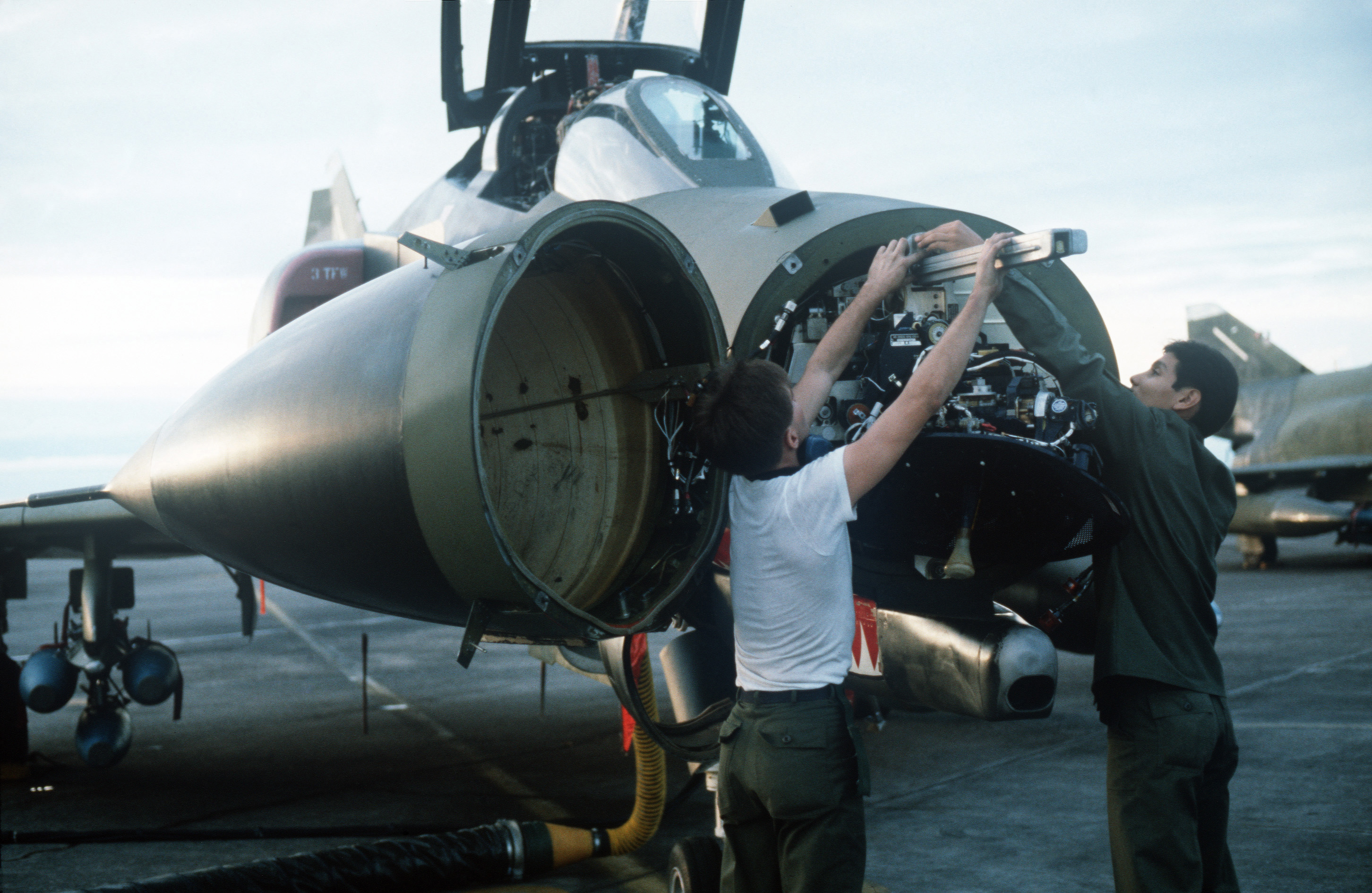 U.S. Air Force ground crewmen perform maintenance on the AN/APQ-120 radar system of a McDonnell Douglas F-4E Phantom II aircraft assigned to the 3rd Tactical Fighter Wing at Clark Air Base, Philippines, during exercise "Cope Max '85".